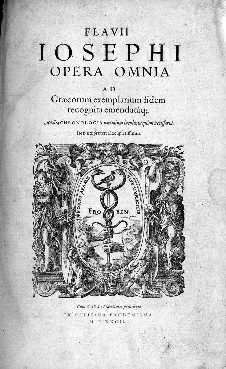 Flavius Josephus: Opera omnia ad Graecorum exemplarium fidem recognita emendataq[ue], printed by the Froben workshop (officina Frobeniana), Basel 1582